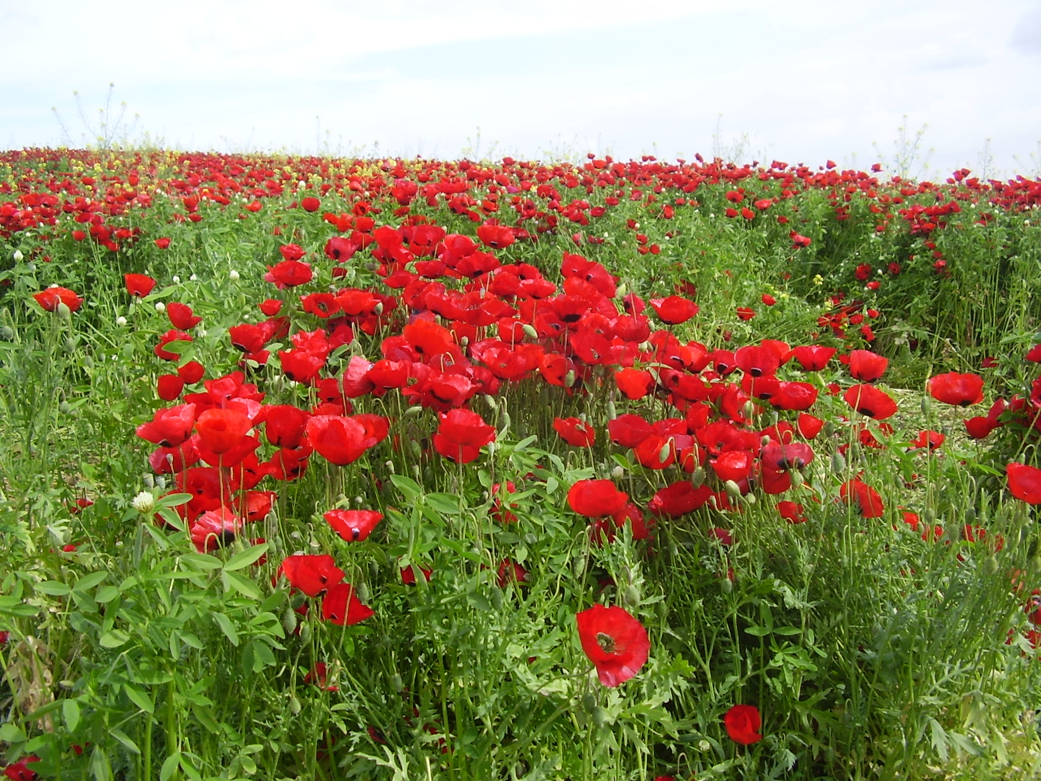 Flowering poppies (maybe Papaver umbonatum?) in the Negev, Israel